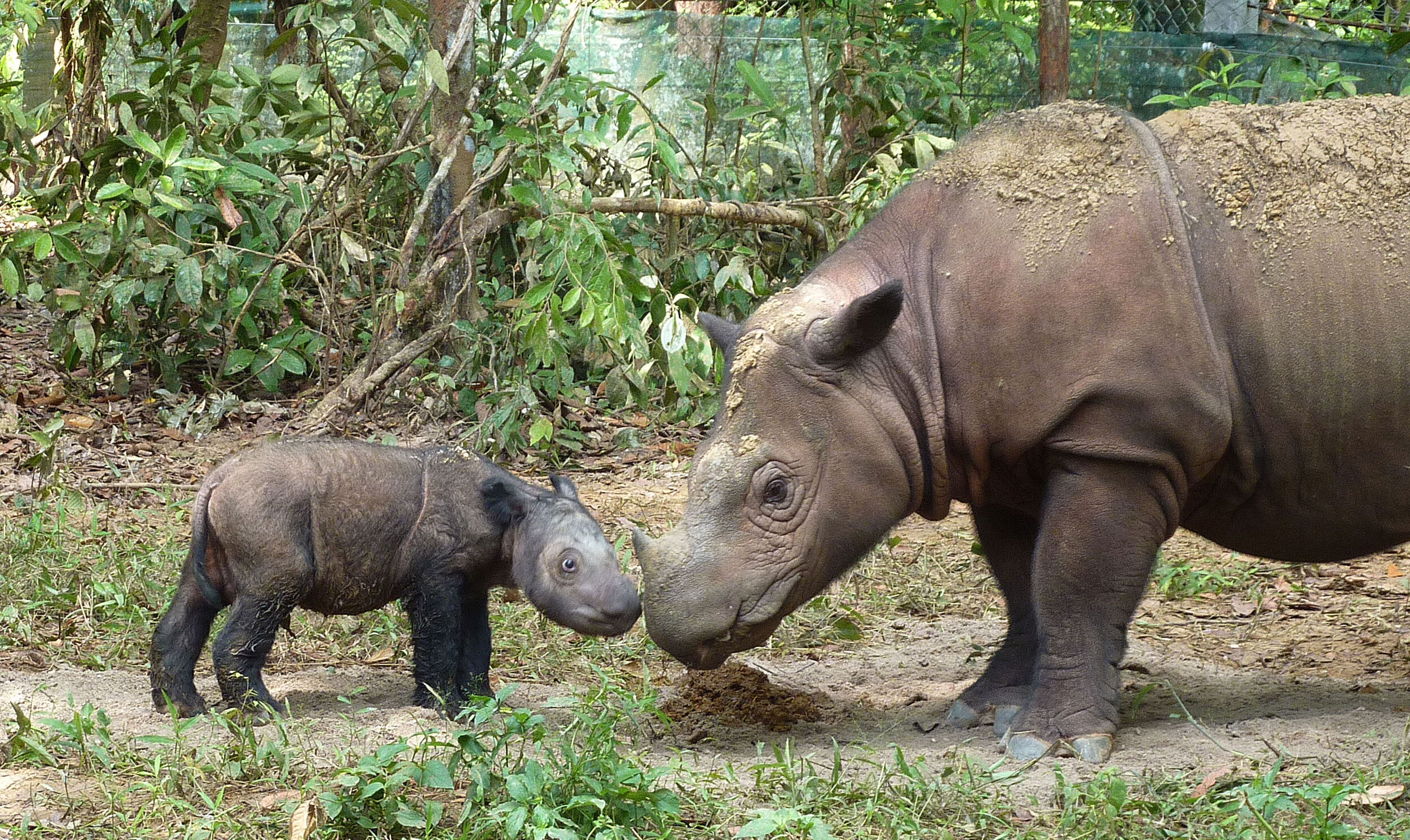 Ratu and Andatu, Day 4. Photo by S. Ellis